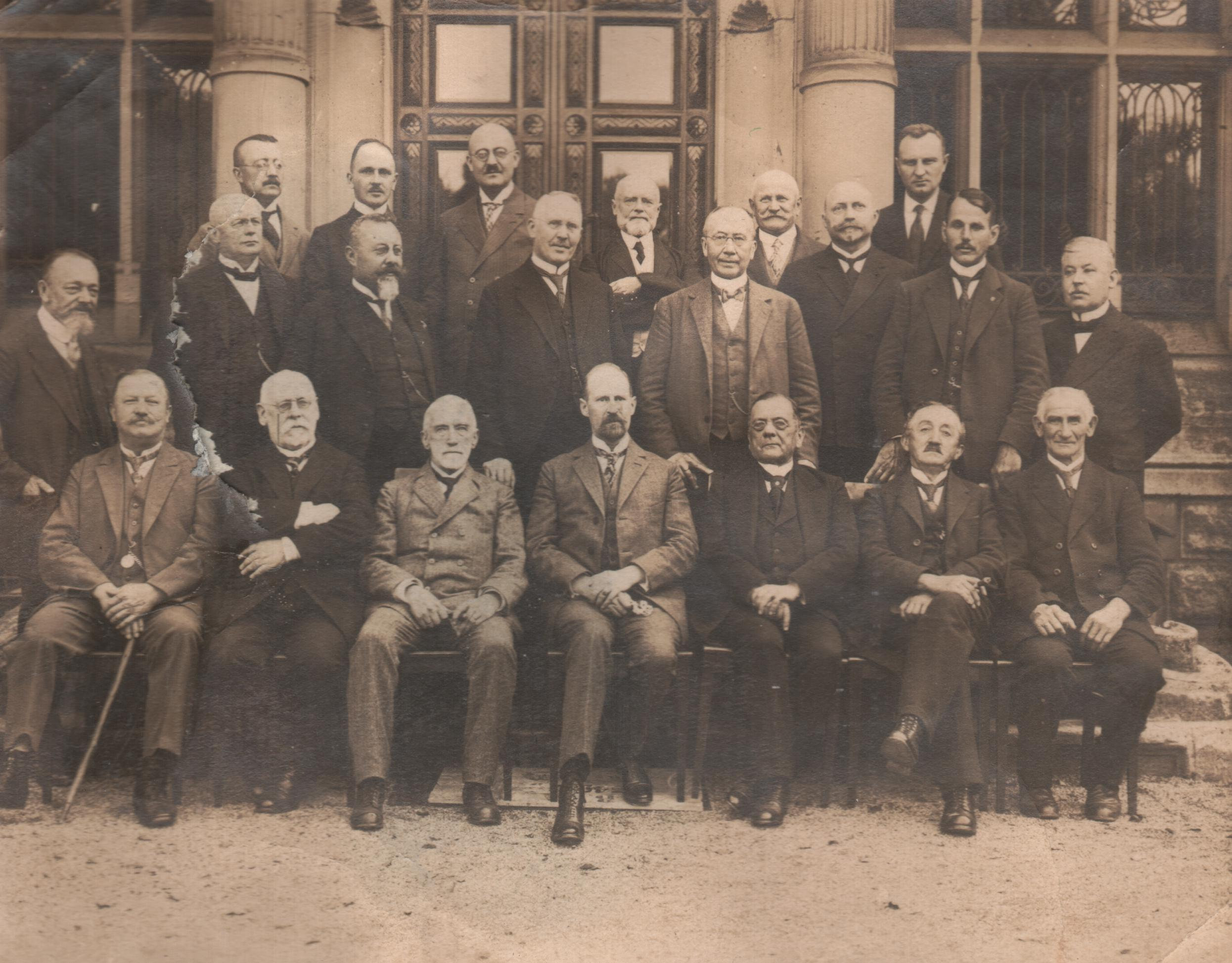 This picture shows the members of the II. parliament (Landeskirchentag) of the Evangelical Lutheran Church in Thuringia in the year 1928